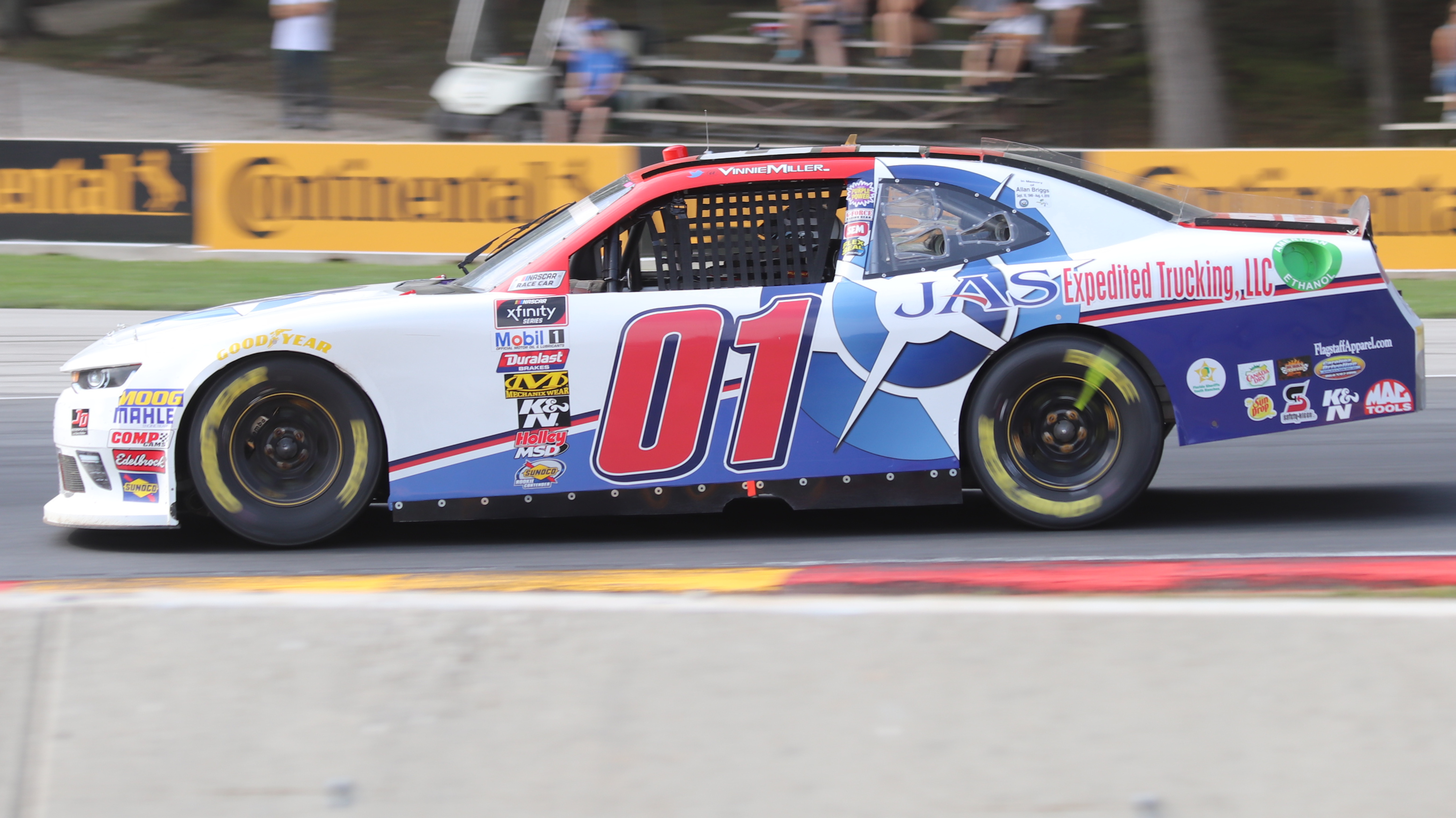 The Chevrolet Camaro of Vinnie Miller at the NASCAR Xfinity Series Johnsonville 180.